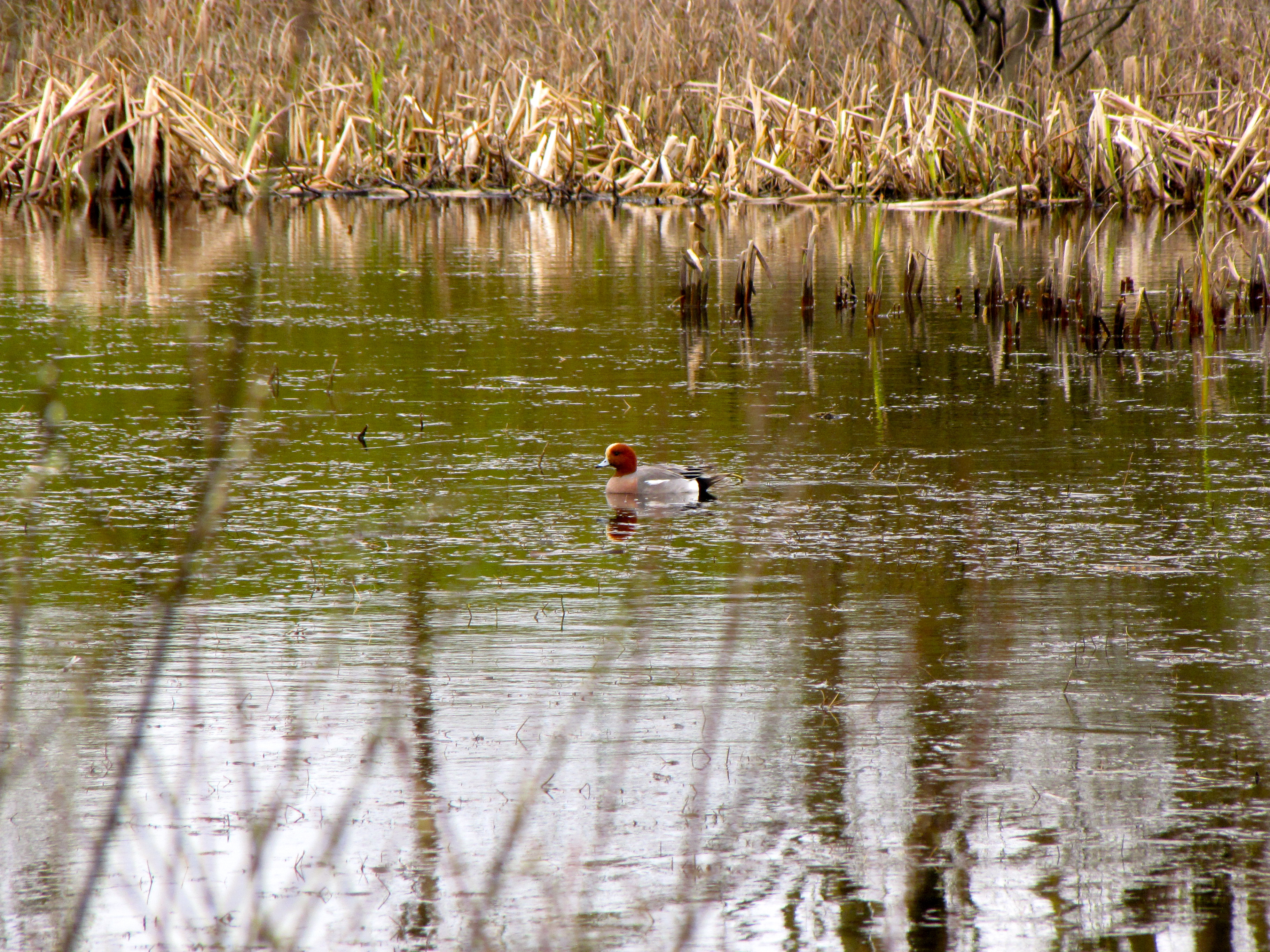 A Eurasian Wigeon in a marsh along N67, Ireland